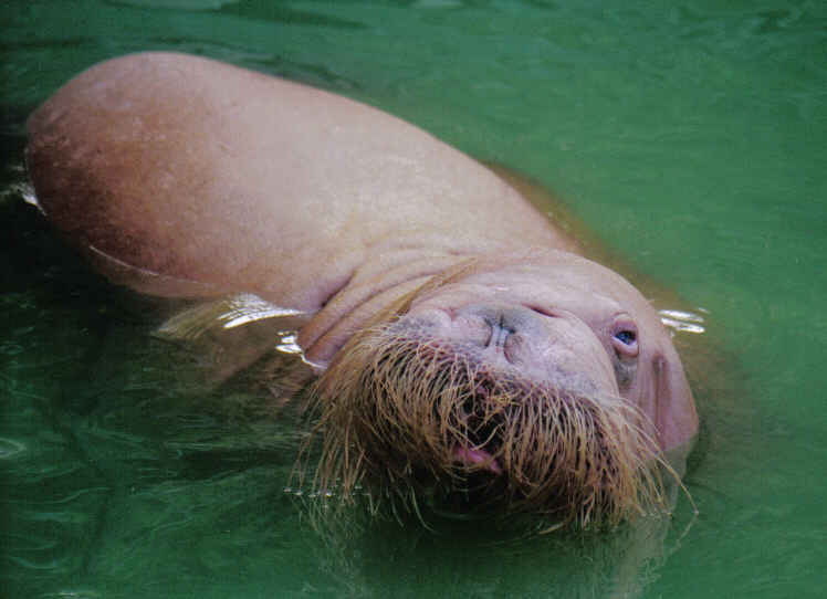 Tanja (* ca. 1974; † 16. Februar 2007 in Hannover) was a female walrus (Odobenus rosmarus), which lived in the Hannover Zoo. Last walrus in a German zoo.